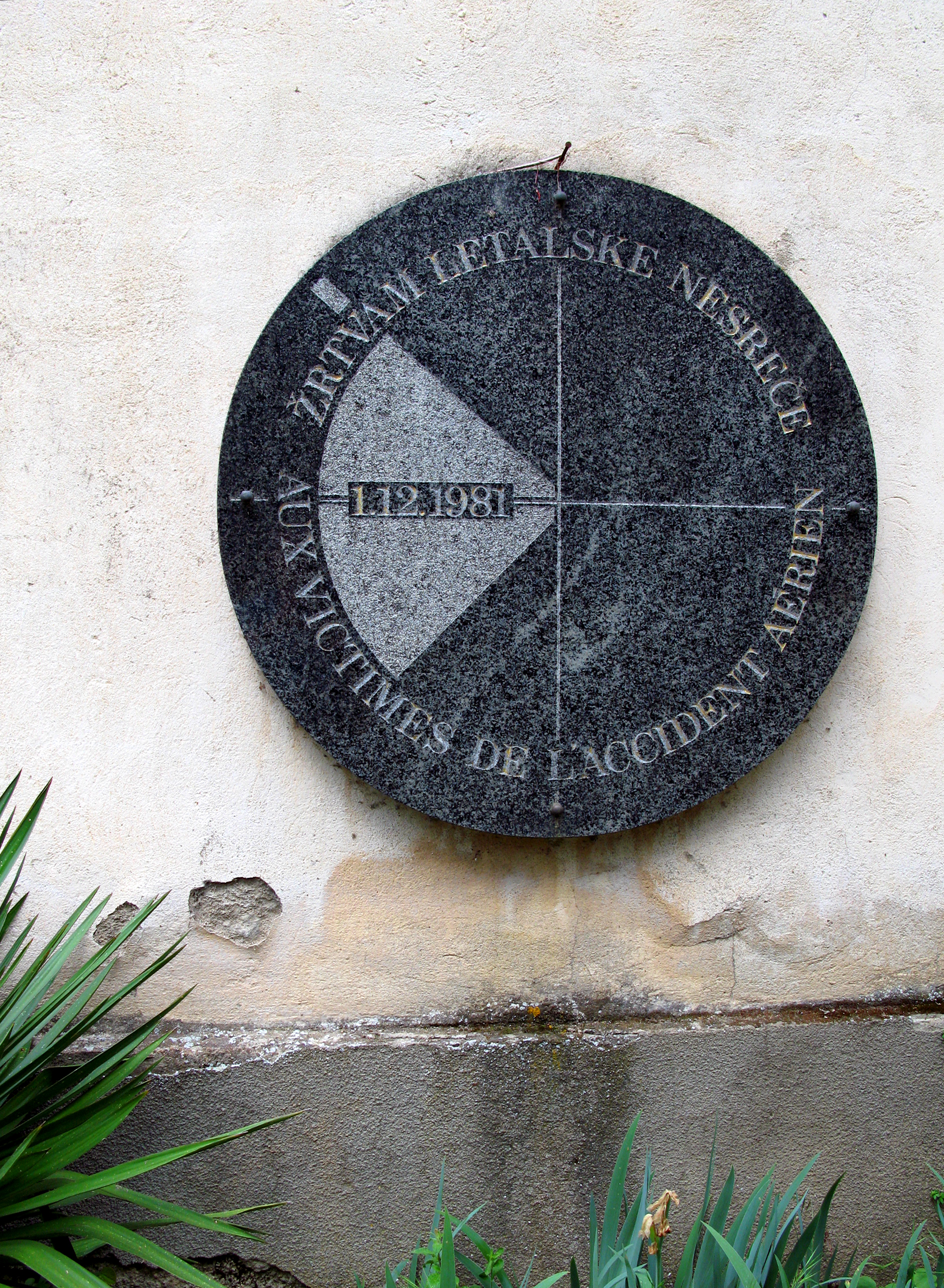 Transcription in english: To victims of air crash, December 1. 1981.